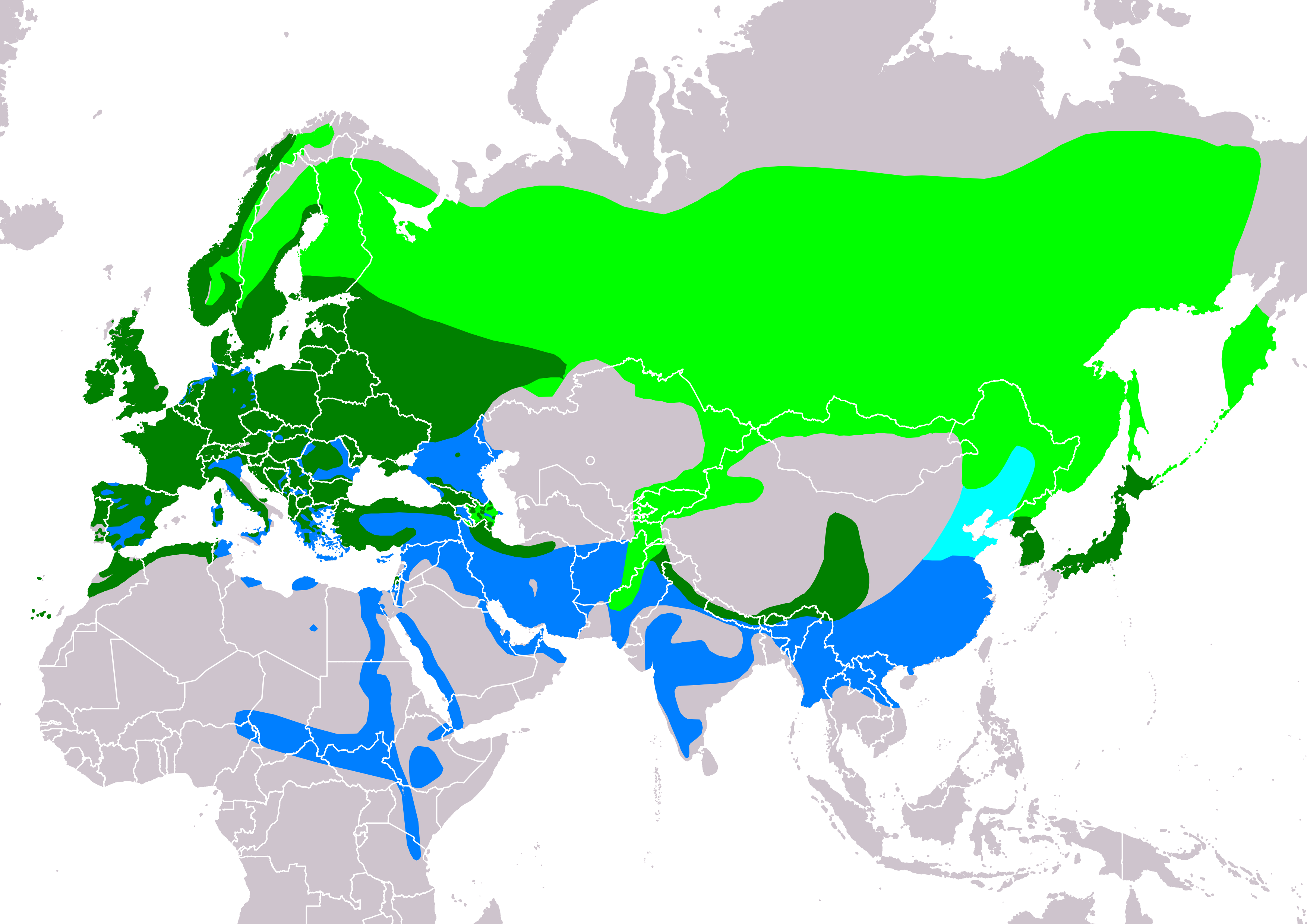 Map of Eurasian sparrowhawk (Accipiter nisus) according to IUCN version 2018.2 , Legend: Extant, breeding (#00FF00), Extant, resident (#008000), Extant, passage (#00FFFF), Extant, non-breeding (#007FFF)